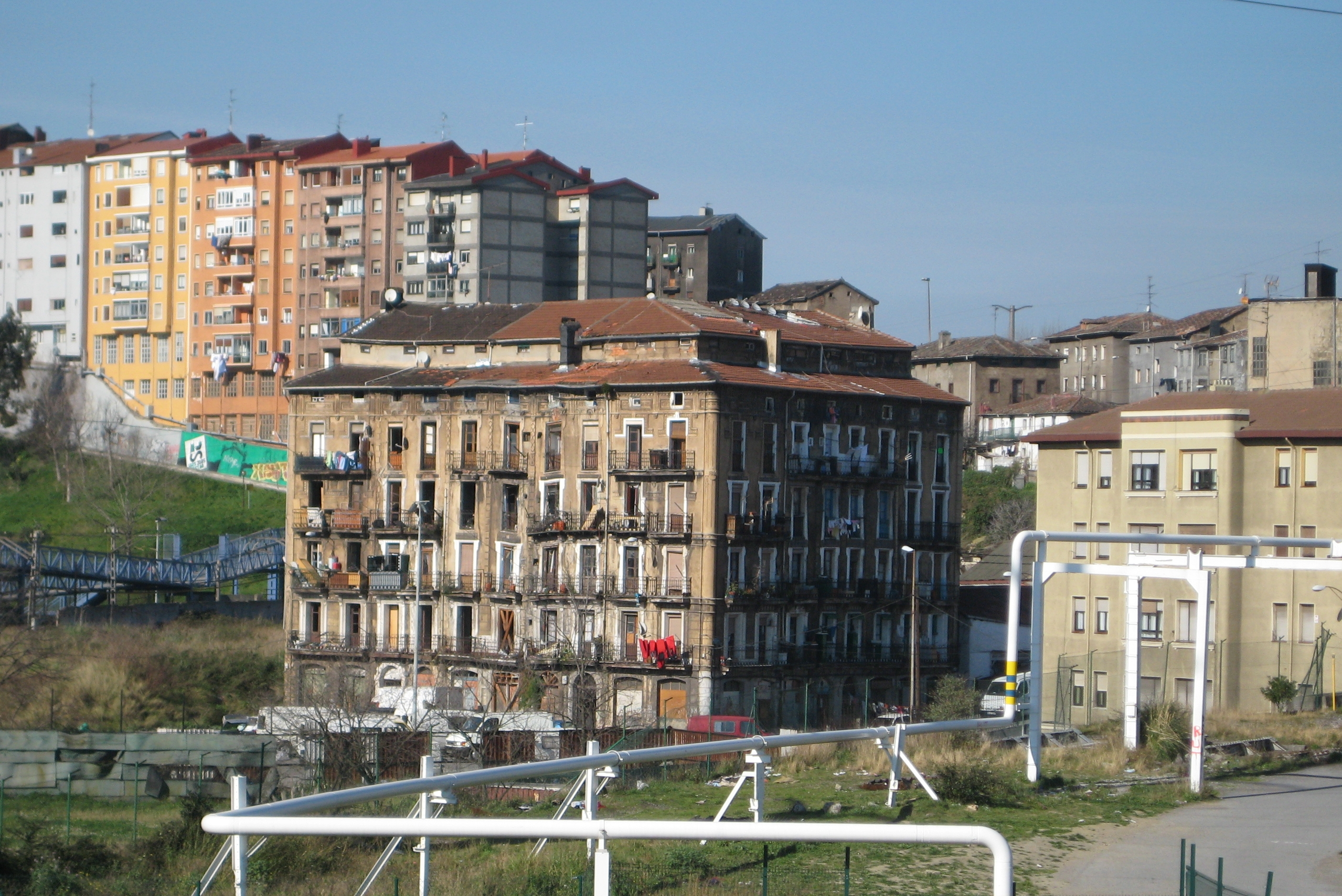 Block known as Casa Grande (Big House), built in 1892 in Simondrogas / Urbinaga, Sestao.